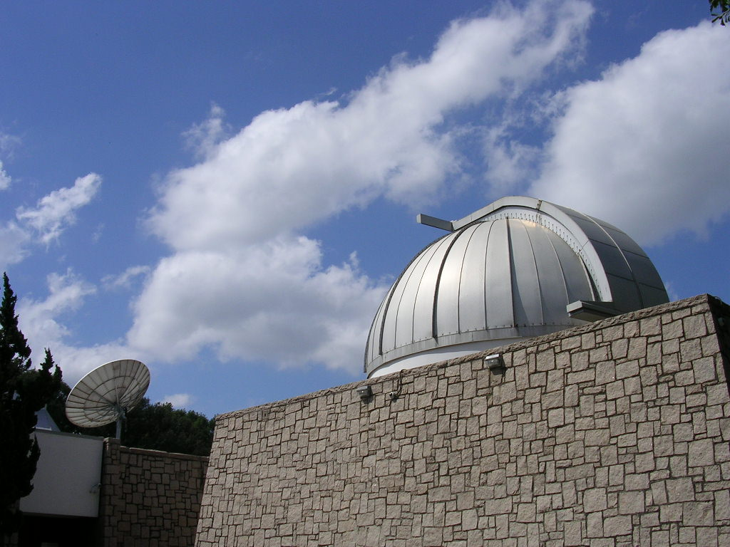 3.0 meter parabolic dish radio telescope and 10 meter dome of the Fernbank Observatory, 156 Heaton Park Drive, unincorporated DeKalb County, Georgia. 33°46′44″N 84°19′5″W / 33.77889°N 84.31806°W